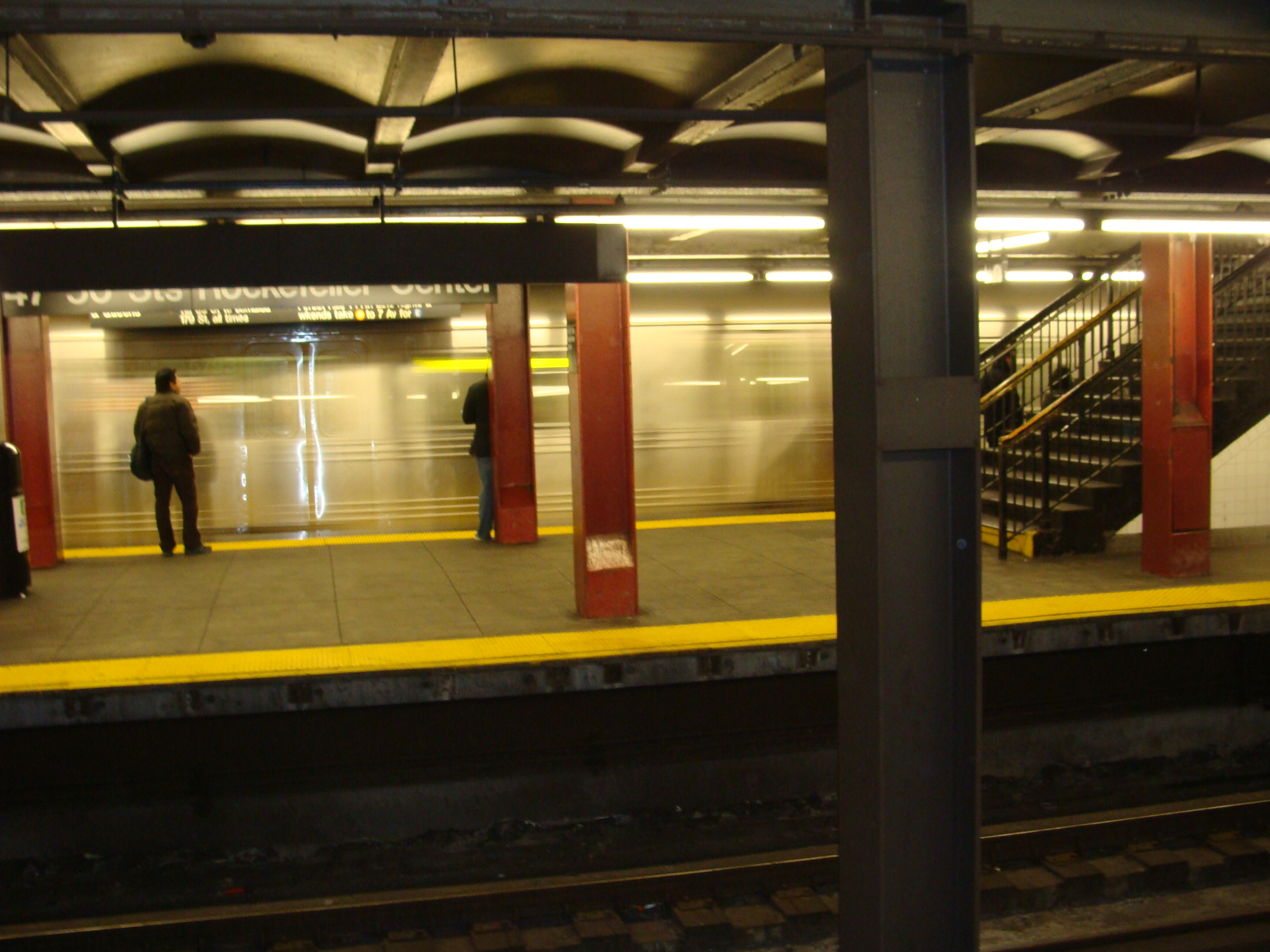 Photograph at 47-50 St IND subway station in NYC near Rockefeller Plaza.